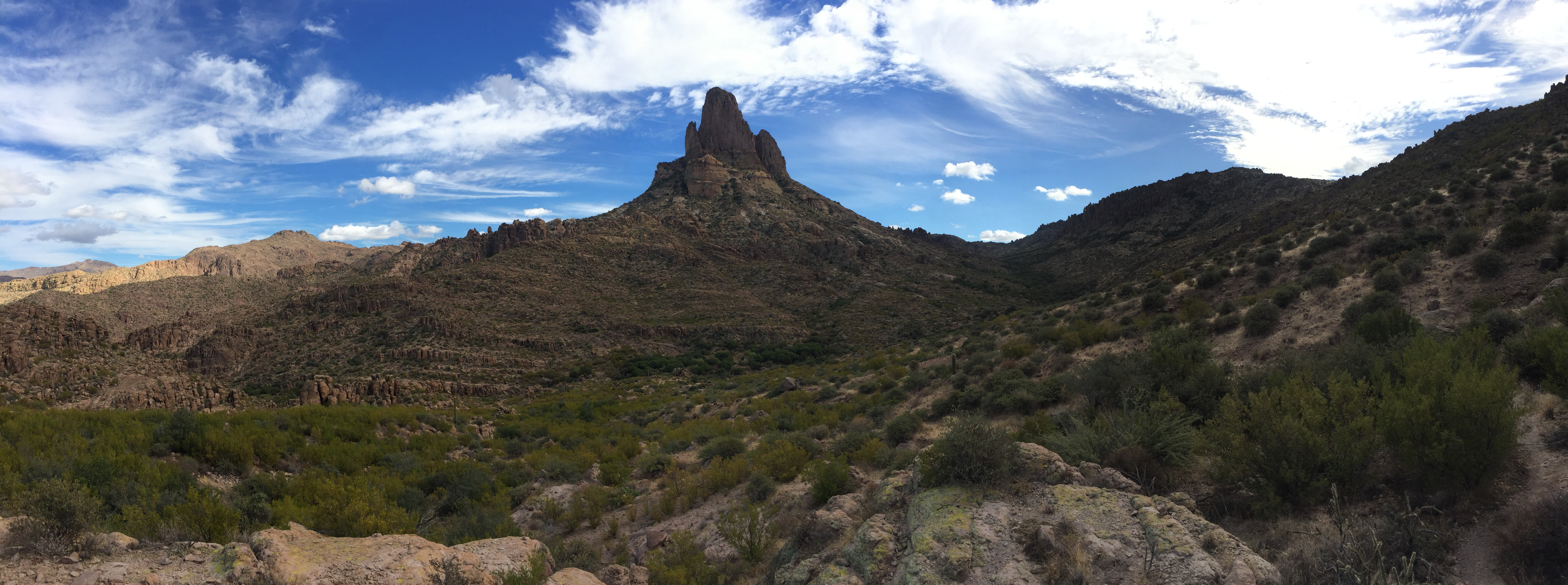 Weavers Needle, Superstition Wilderness, Arizona, USA